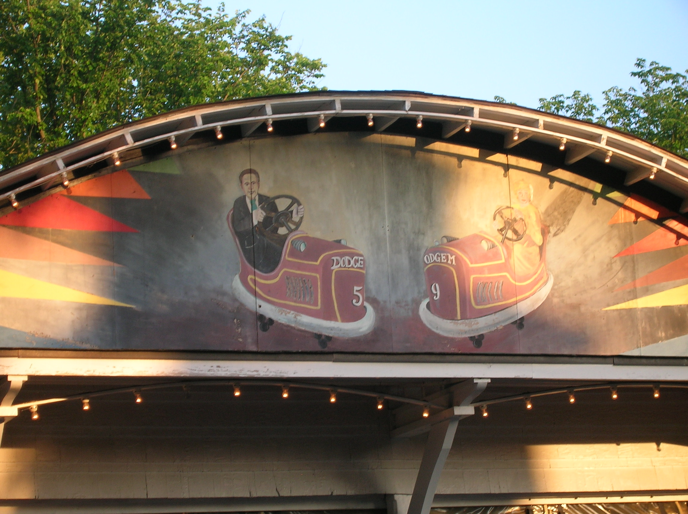 The Bumper Car Pavilion in Glen Echo Park, Glen Echo, Maryland, U.S.A. The Bumper Car Pavilion is the site of contra dancing, swing dancing, and salsa dancing. Photograph taken in 2006 by Kenneth Mayer. I am the author and I put this picture in the public domain.